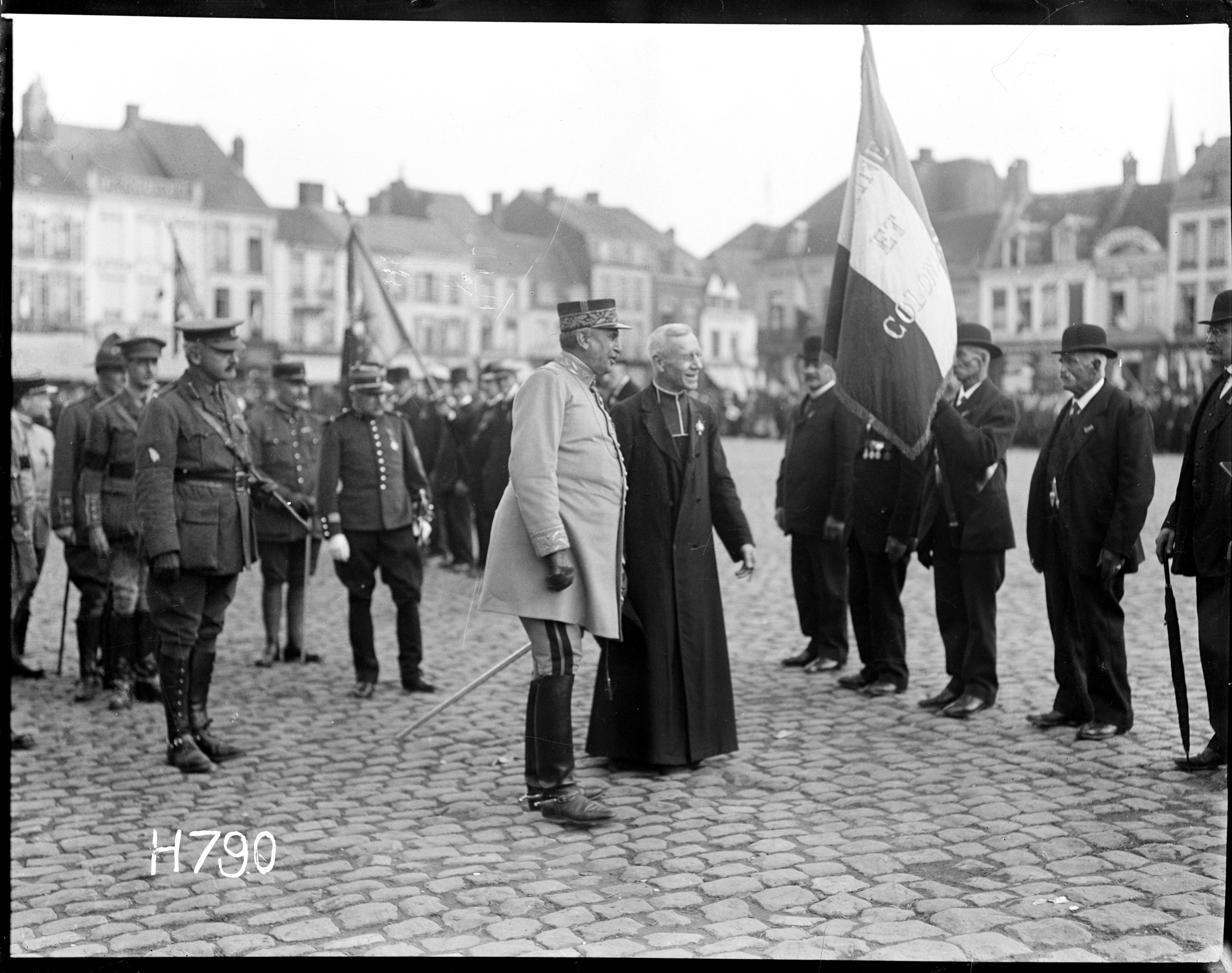 A French general inspects French veteran soldiers (in civilian clothing) taking part in the Fete National celebrations held in Hazebrouck, France during World War I. The general is accompanied by an Archbishop?. Other military officers follow. Photograph taken 14 July 1917 by Henry Armytage Sanders. Inscriptions: Inscribed - Photographer's title on negative -bottom left: H790. Quantity: 1 b&w original negative(s). Physical Description: Dry plate glass negative 4 x 5 inches A French general inspects French veterans at the Fete National celebrations, Hazebrouck. Royal New Zealand Returned and Services' Association :New Zealand official negatives, World War 1914-1918. Ref: 1/2-013378-G. Alexander Turnbull Library, Wellington, New Zealand.